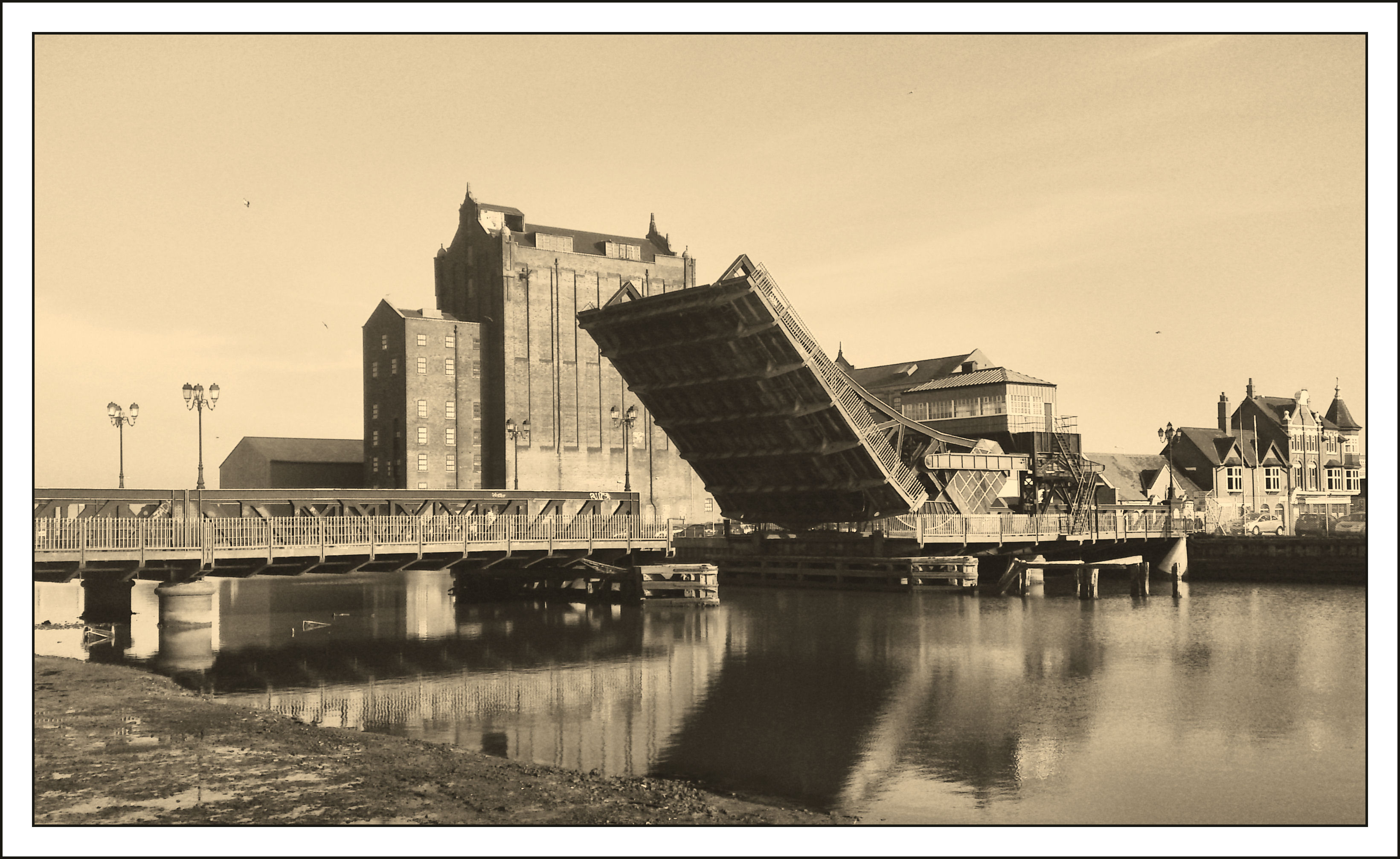 A picture of Corporation bridge in open posittion